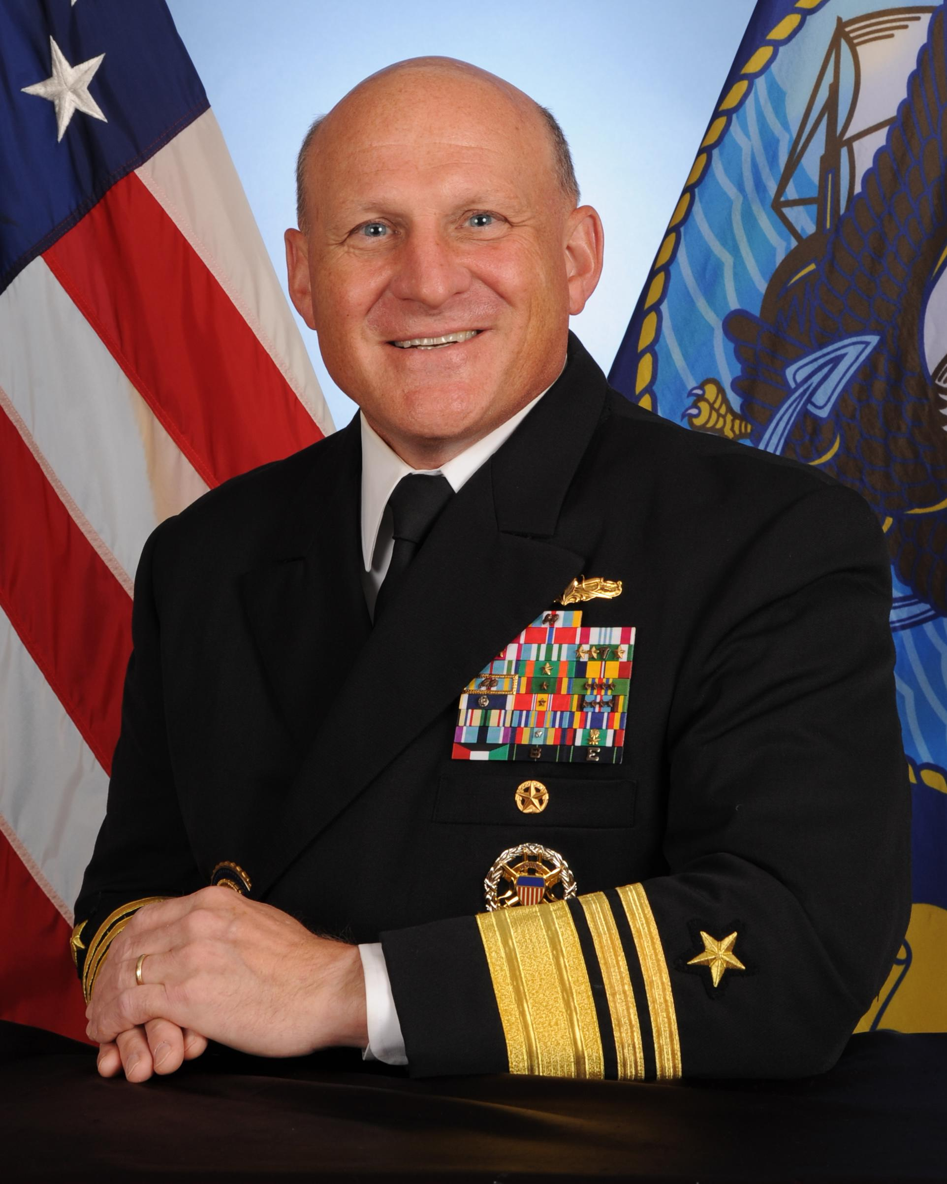 VICE ADMIRAL MICHAEL GILDAY COMMANDER, U.S. FLEET CYBER COMMAND COMMANDER, U.S. 10TH FLEET